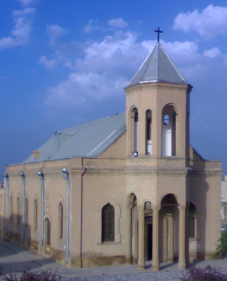 "Holy Mary Church in Hamedan, Iran.